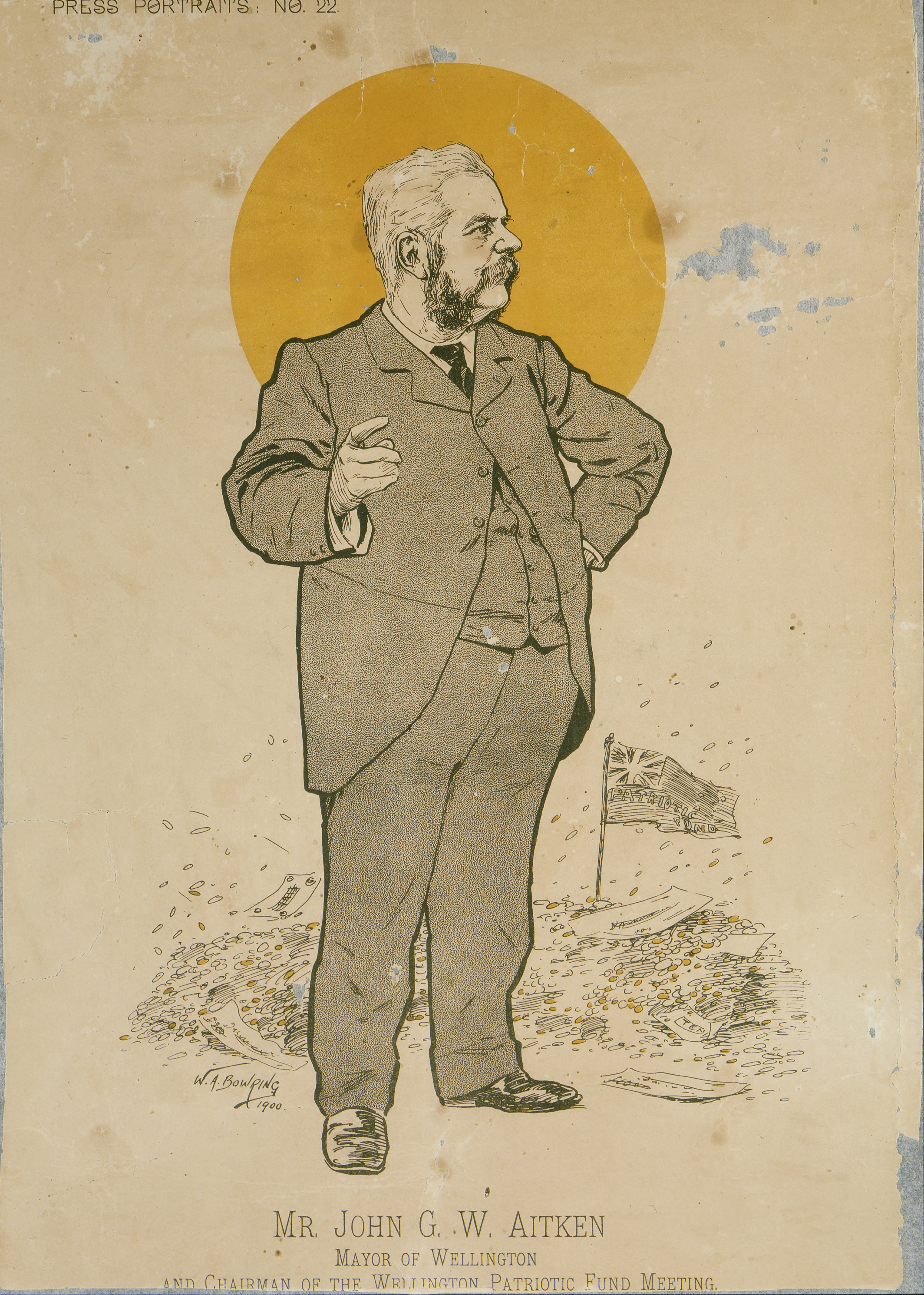 John G. W. Aitken Mayor of Wellington and Chairman of the Wellington Patriotic Fund Meeting / W. A. Bowring 1900. - [Christchurch ; Christchurch Press Co Ltd., 1900]. Press portraits no. 22. Caricature and full-length portrait of a short stout man in a suit, standing in front of a large pile of coins and notes, surmounted by a flag inscribed Patriotic Fund.